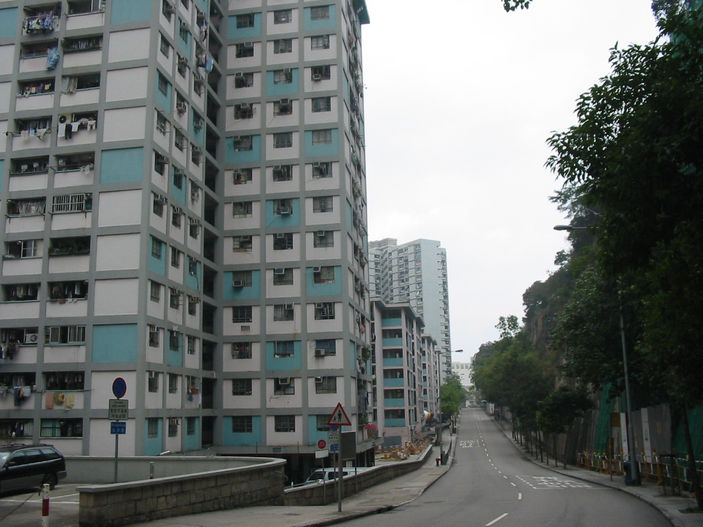 Ming Wah Dai Ha